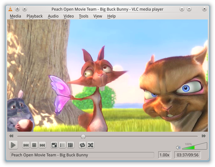 VLC media player 2.0.6 with Big Buck Bunny.